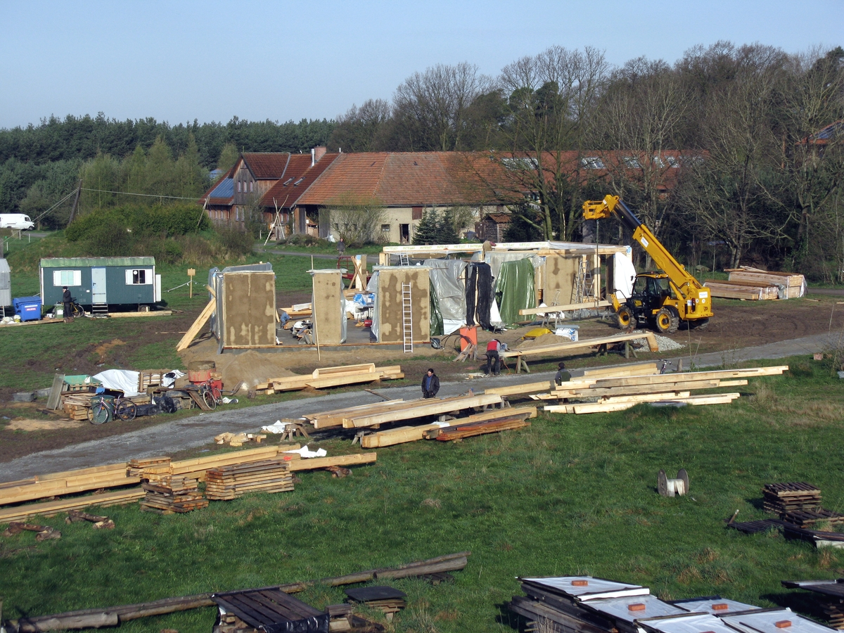 Prefabricated strawbale walls at the building of the house "Windrose" (Sieben Linden Ecovillage)